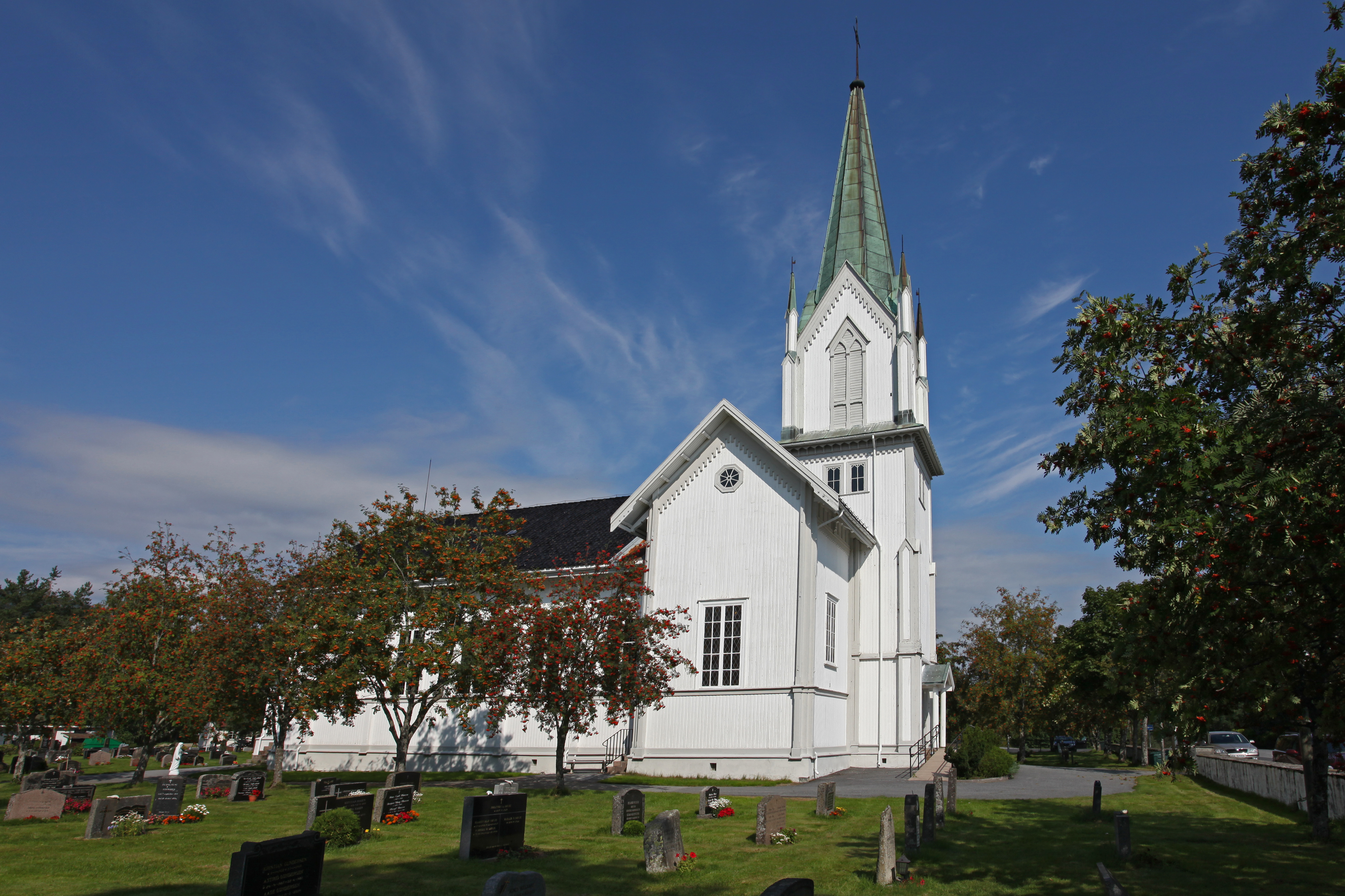 Picture of Bakke church (Øvre Eiker, Buskerud - Norway)